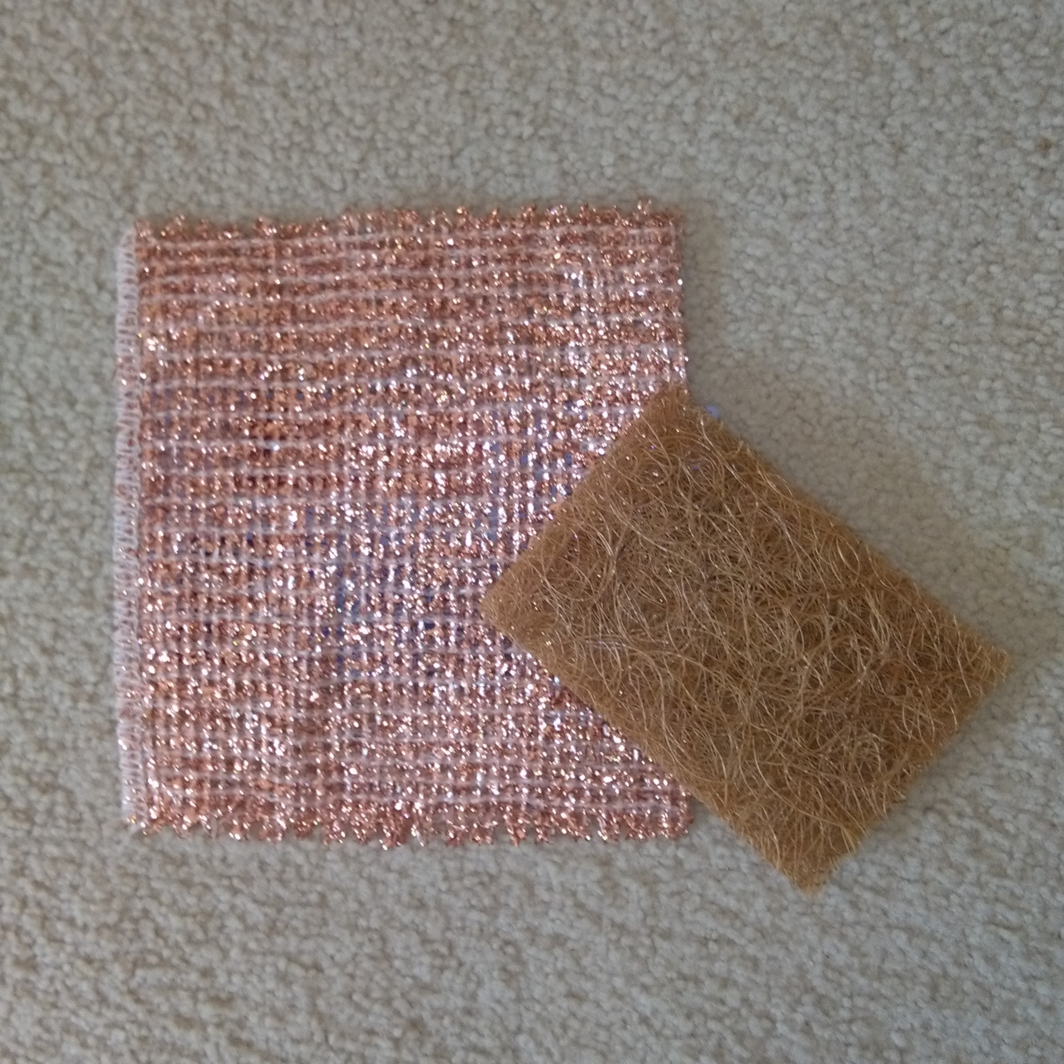 Cleaning sponges from coconut and from copper